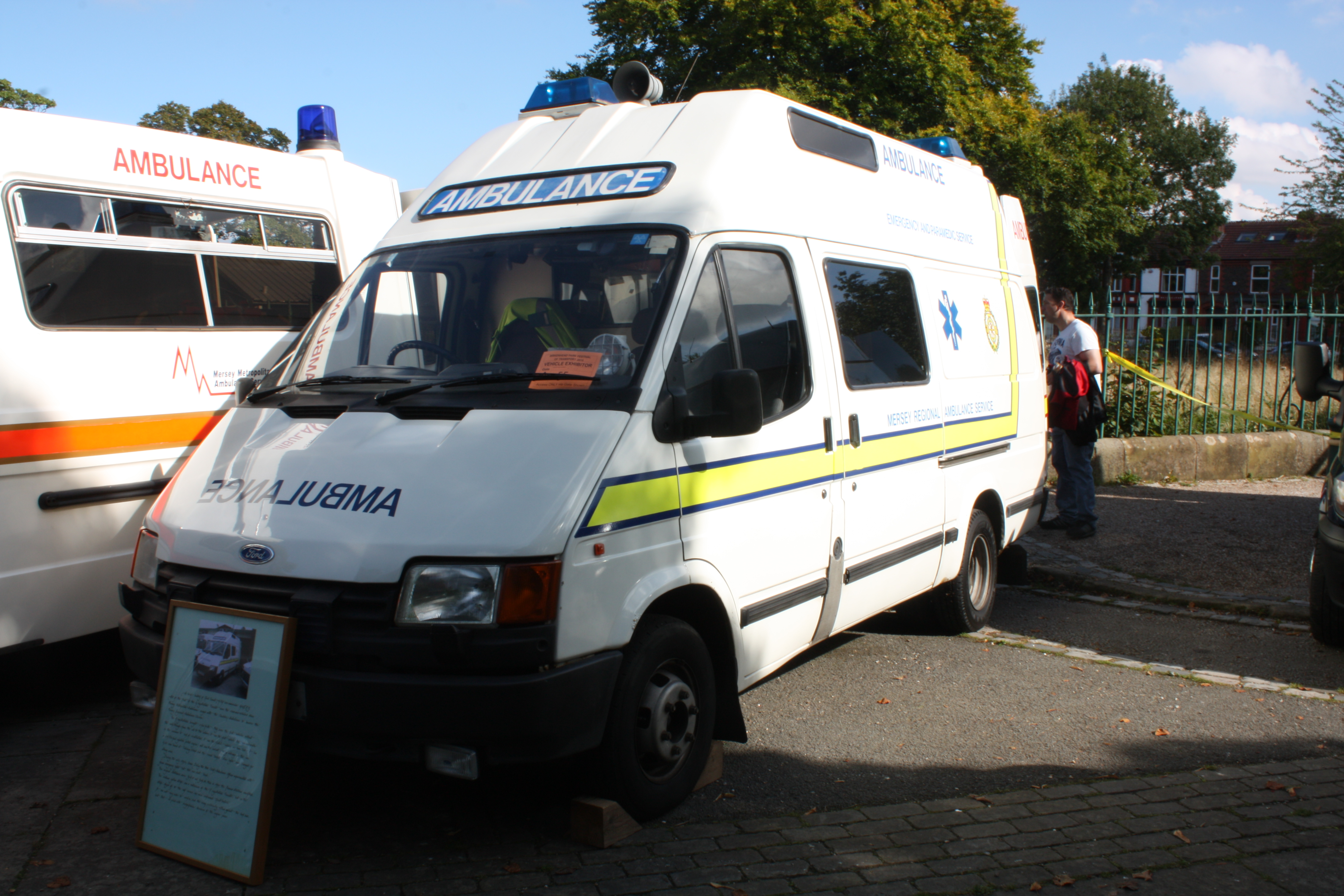 Ford Transit Hitop Ambulance reg. G53 EFY (1990)